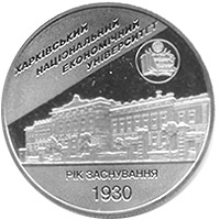 Ukrainian Coin Kharkov Ing Econom Institute 76 years reverse 2006